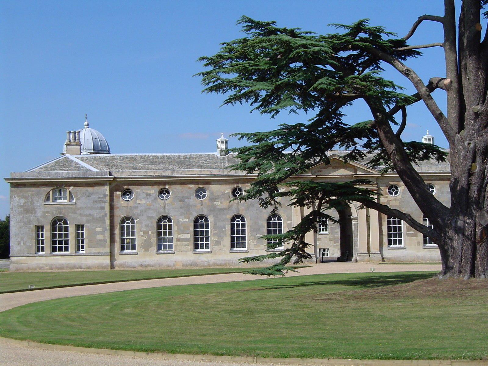 Antiques centre at Woburn Abbey, near to Woburn, Bedfordshire, Great Britain.